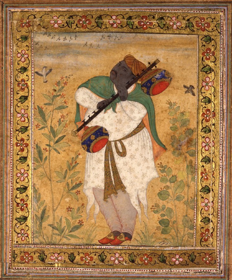 Naubat Khan the Vina Player, style of Ustad Mansur